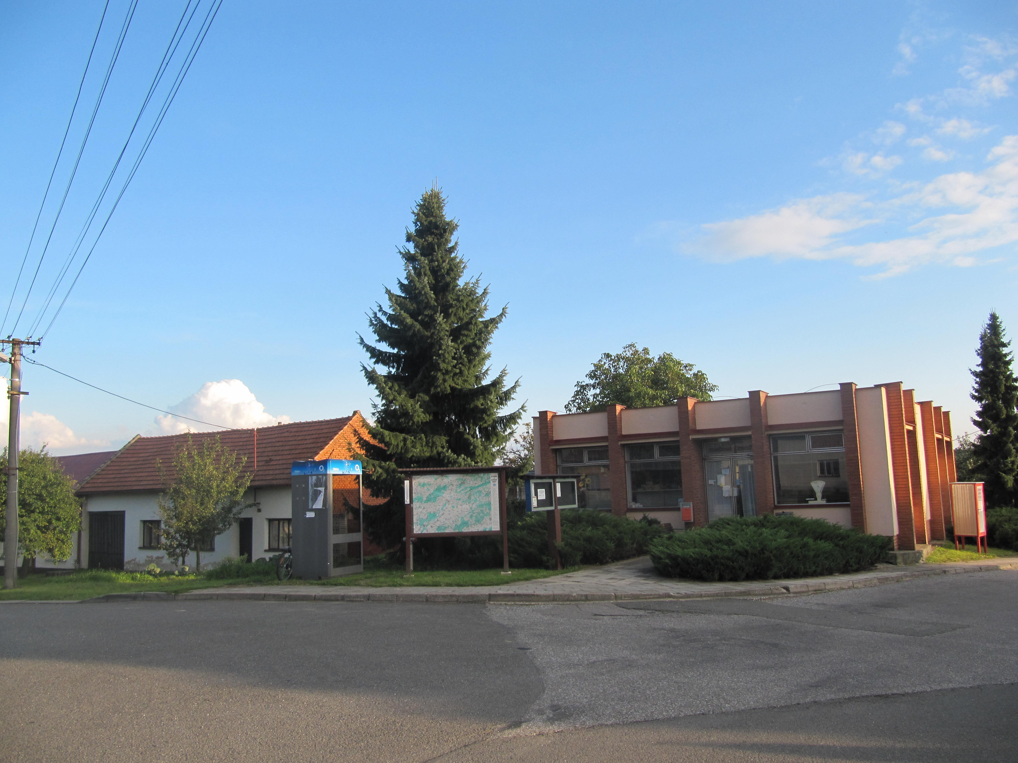 Karlovice in Zlín District, Czech Republic.Centre of the village with shop.